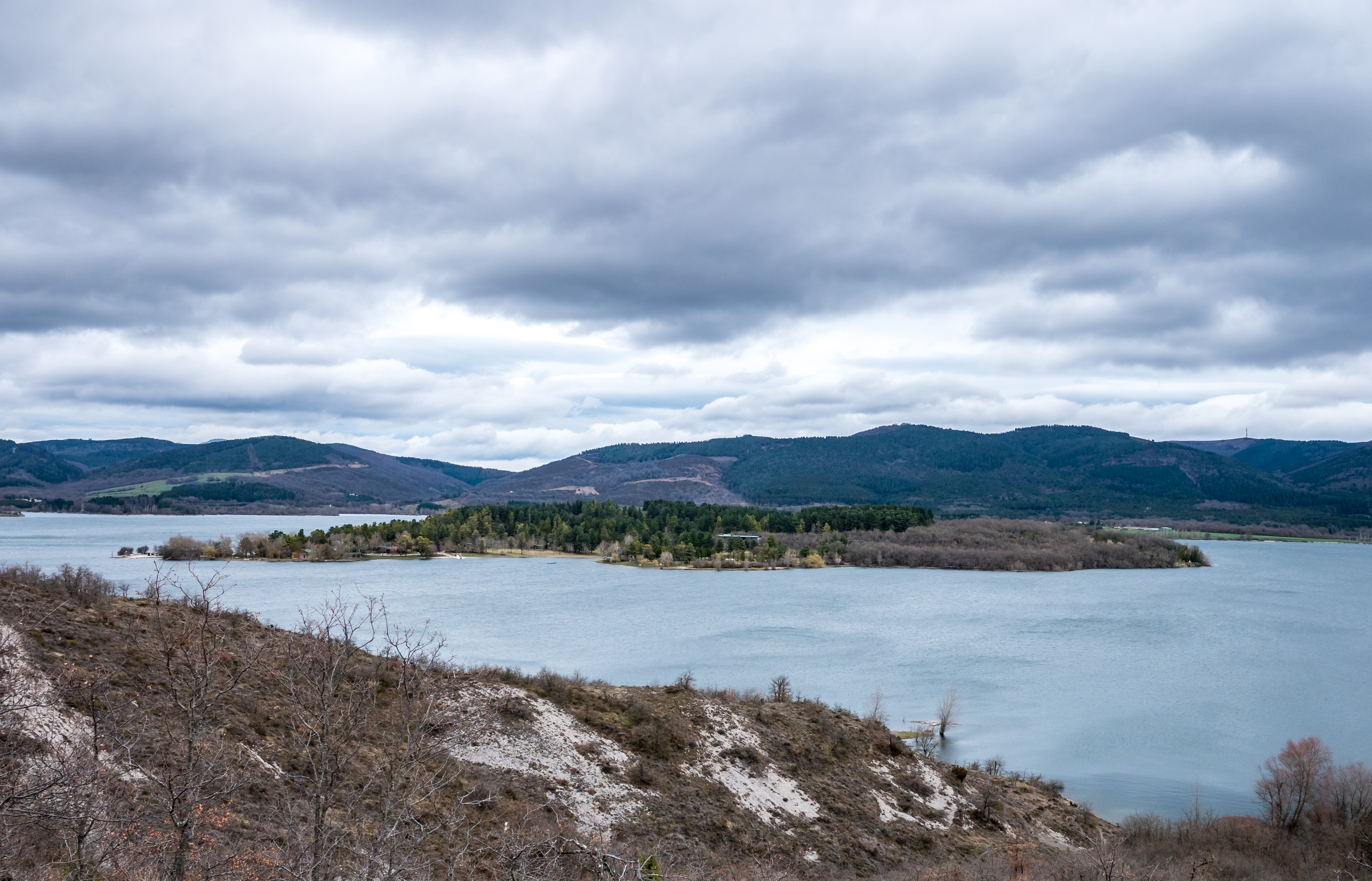 Zuaza Island as seen from the road of Nanclares de Gamboa. Álava, Basque Country, Spain